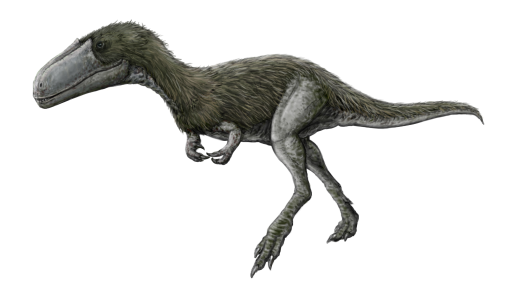 Restoration of Timurlengia euotica.